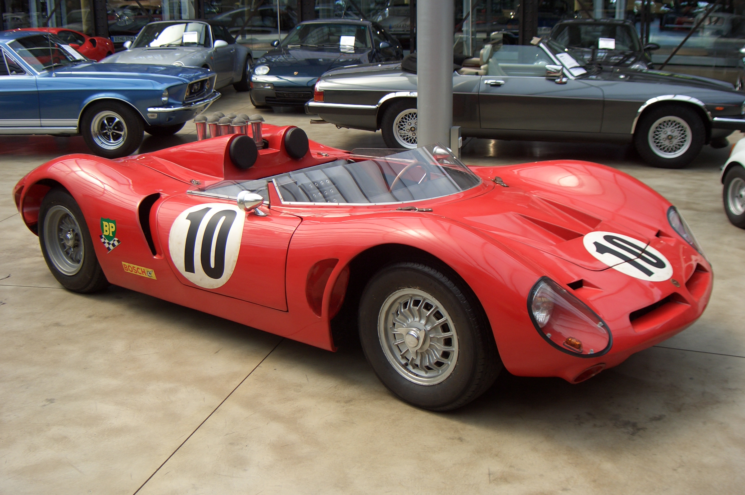 Bizzarrini P578 Spider, 1976, unique car, custom made for an italian industrialist. Only car of the original P538 series with a De Tomaso Pantera/Ford Cleveland engine.